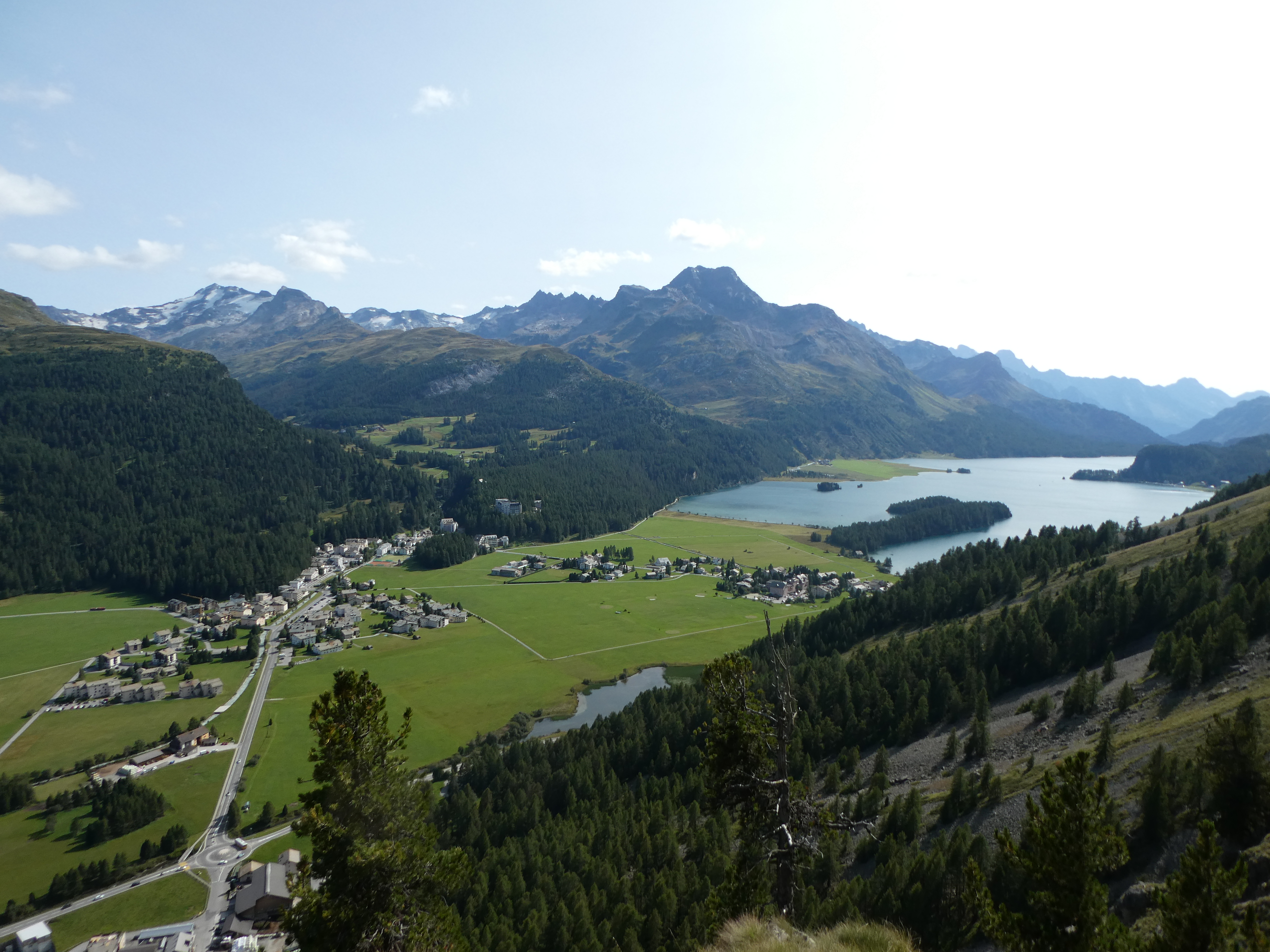 Lake sils, Sils/Segl Maria and Sils/Segl Baselgia, picture taken from the hiking path to Lej da la Tscheppa (Sils im Engadin/Segl, Grison, Switzerland)